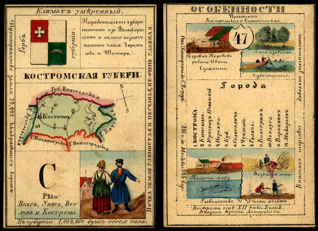 Postcard. Kostroma province. 1856